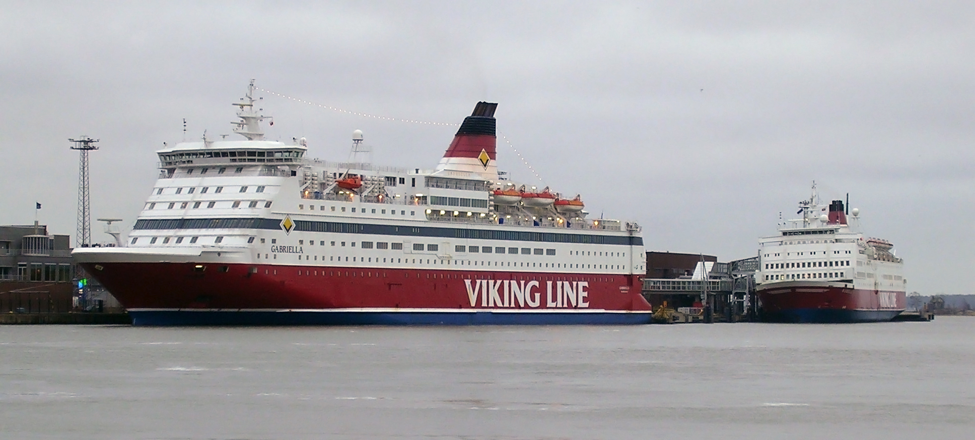 M/S Gabriella and M/S Rosella in Helsinki. M/S Gabriella IMO Number: 8917601 MMSI Number: 230361000 Callsign: OJHP Length: 172 m Beam: 28 m M/S Rosella IMO Number: 7901265 MMSI Number: 266296000 Callsign: SDEV Length: 136 m Beam: 24 m